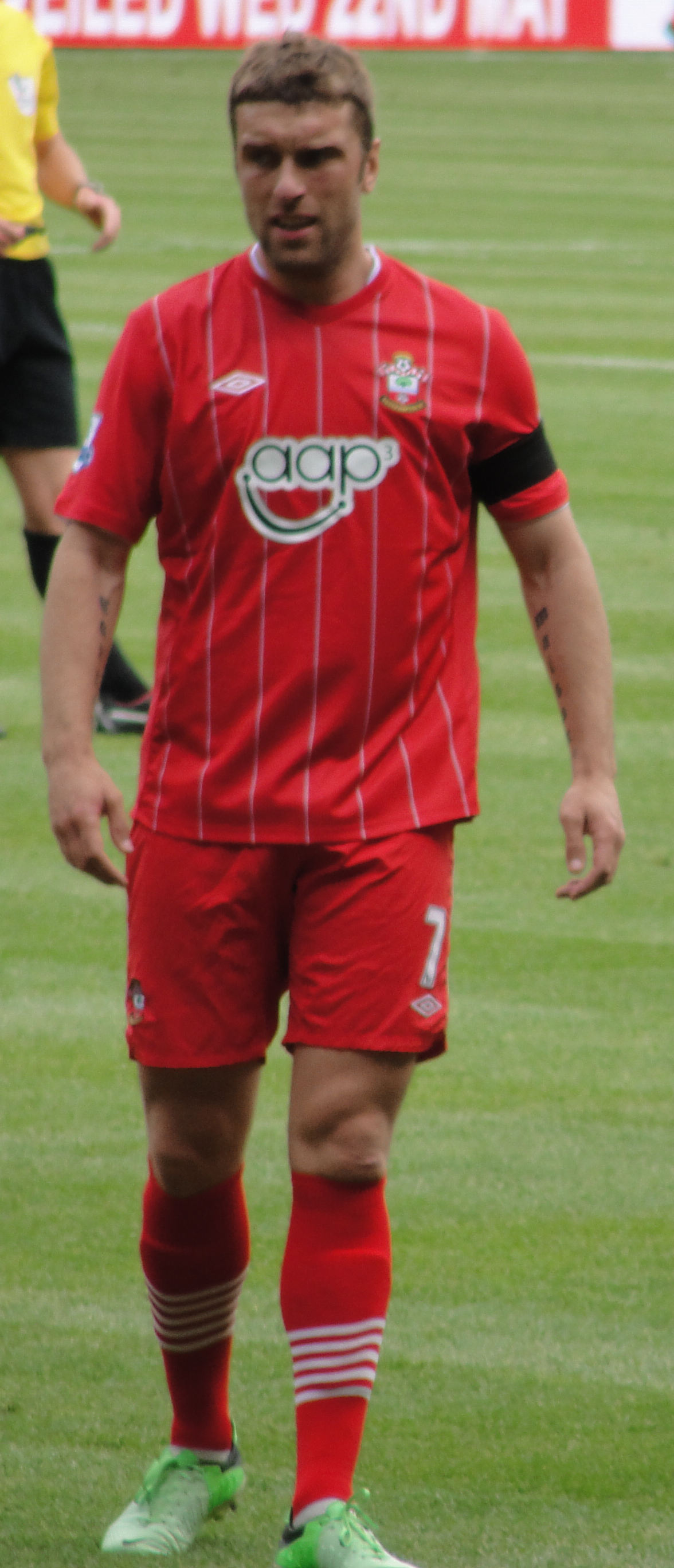 Southampton F.C. player Rickie Lambert at St Mary's Stadium on 19 May 2013.